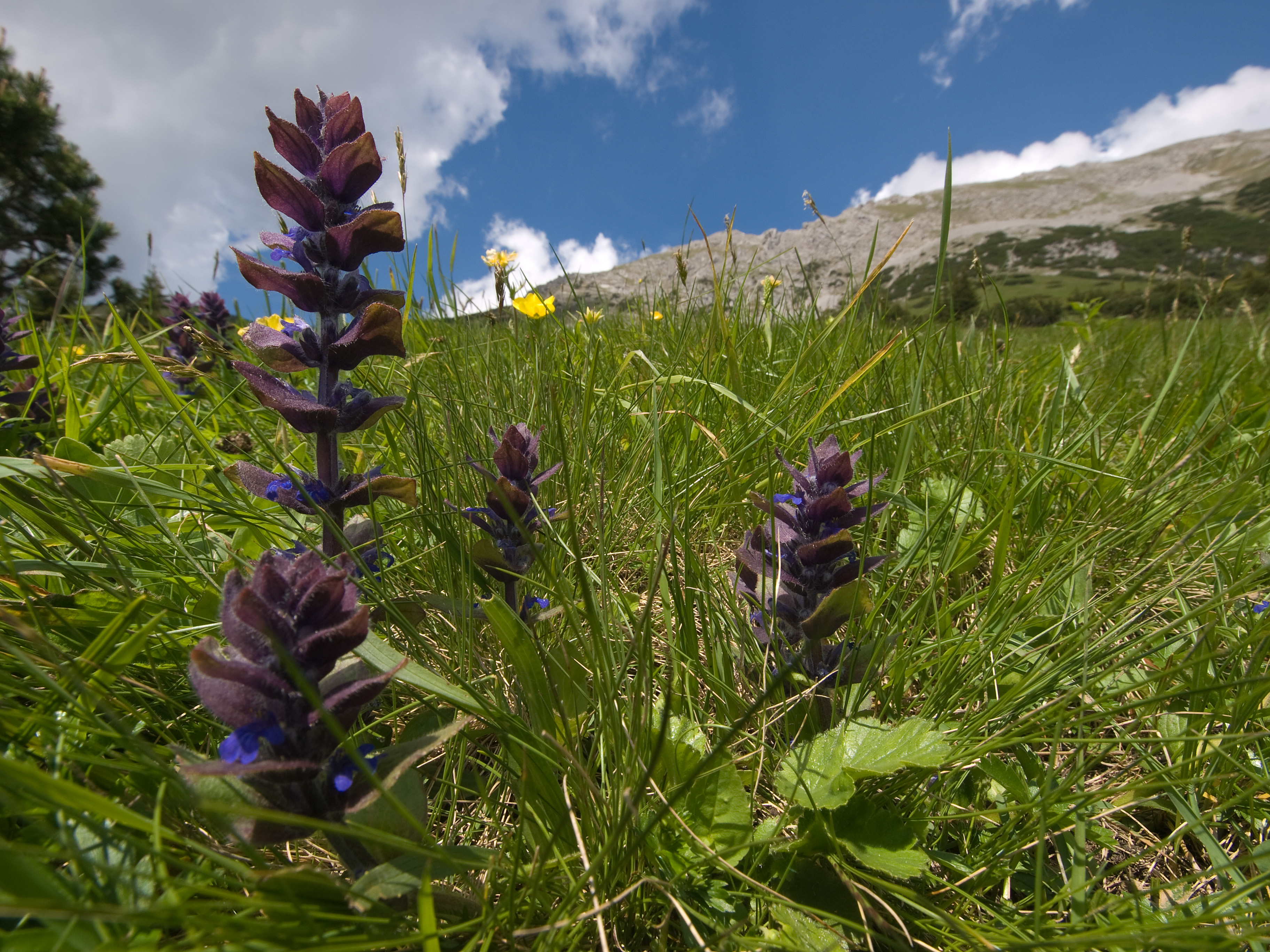 Ajuga pyramidalis; Picture taken near Ehrwald/Austria